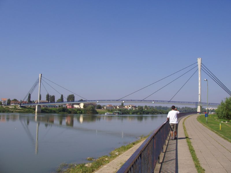 tranquilness and view of the bridge